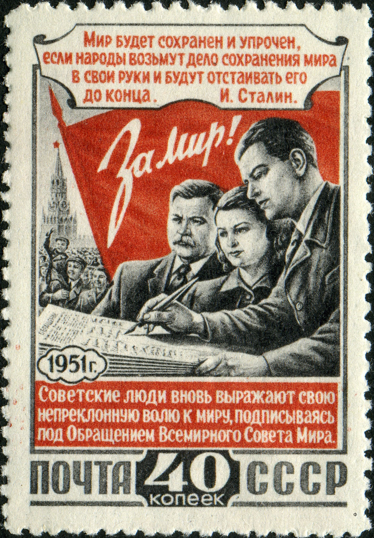 A USSR stamp of 1951. 3rd All-Union Conference of Peace Champions. "Signing of an appeal of the World Peace Council". CFA#1658.